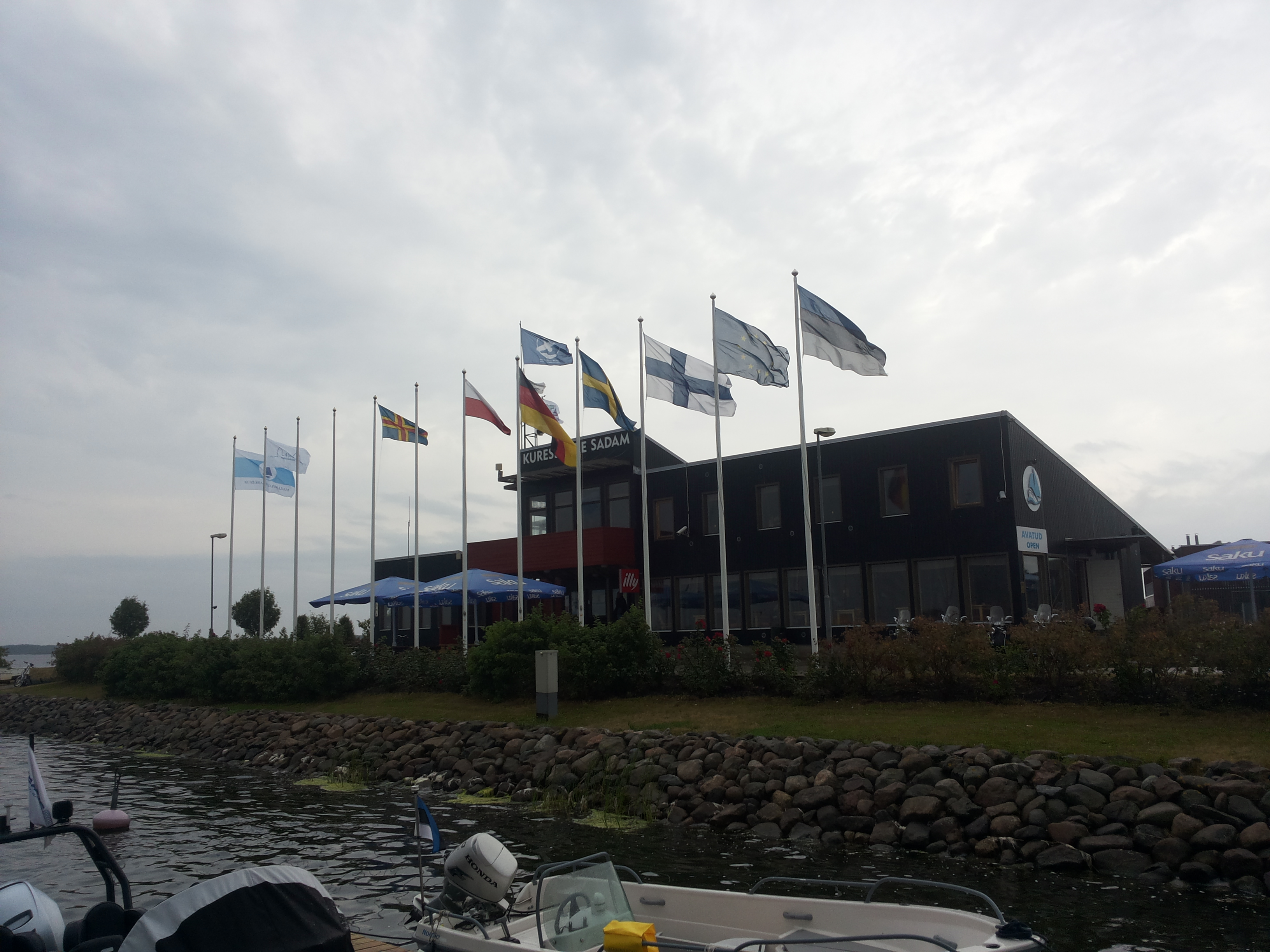 Kuressaare City Harbour